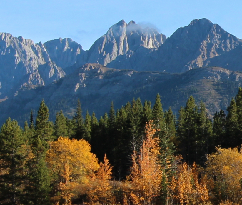 Mount Packenham (center) and Hood (right) seen from Lower Kananaskis Lake. Alberta Canada